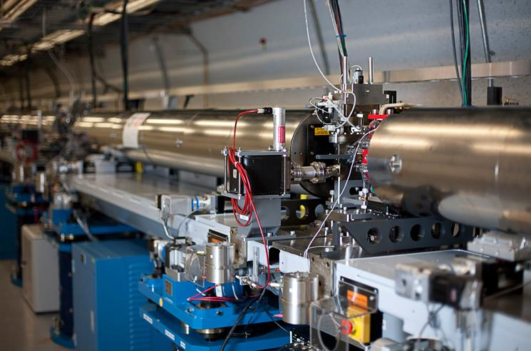 Fragment of the tunnel of the SLAC linac.